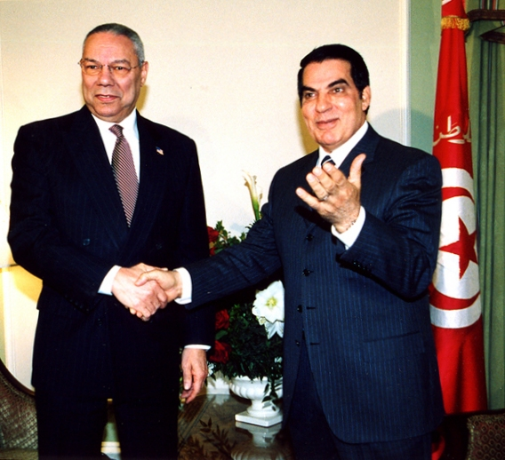 US-Secretary Powell with Zine El Abidine Ben Ali, President of the Republic of Tunisia.